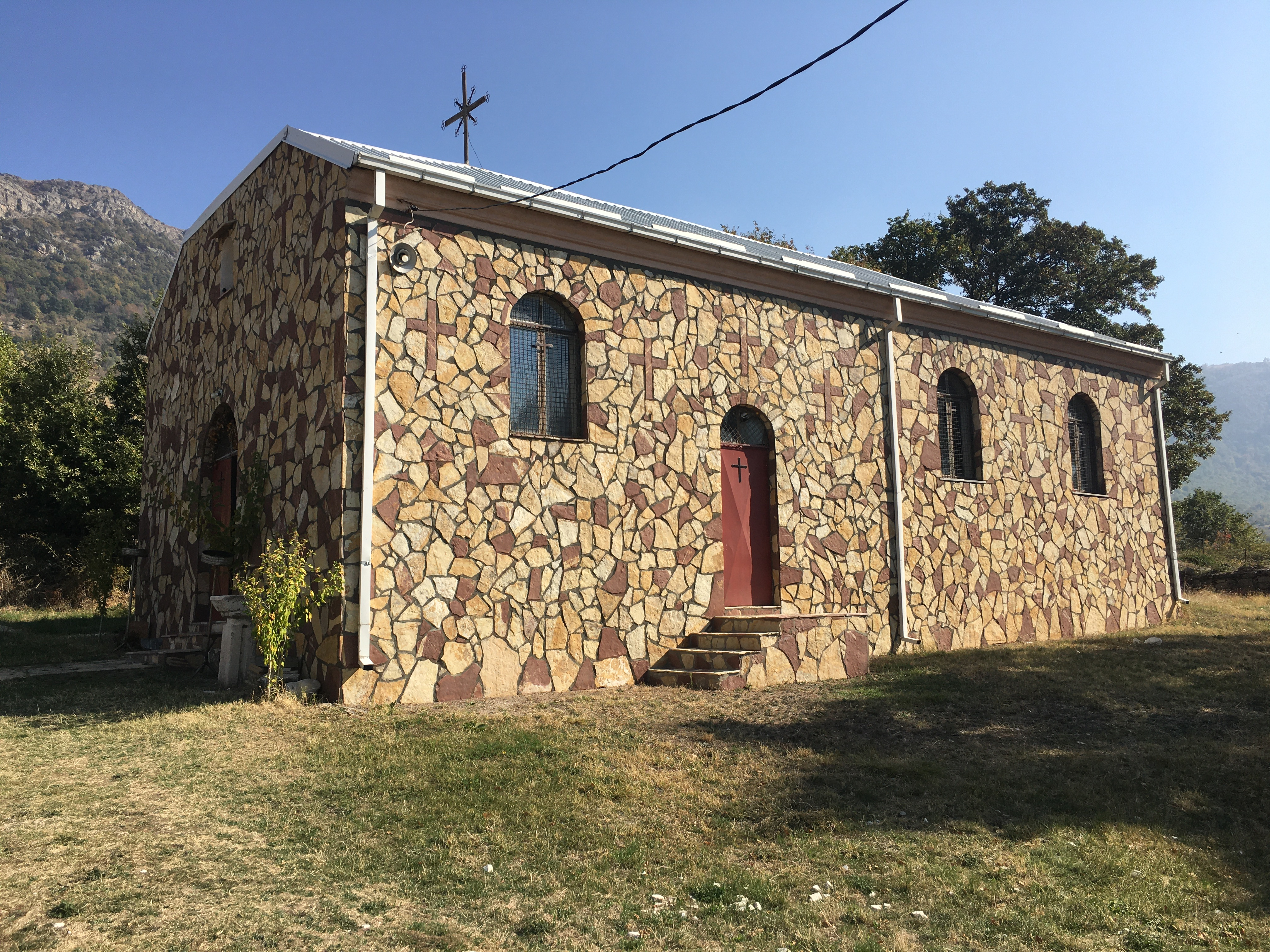 St. John the Baptist Church of the Nebregovo Monastery